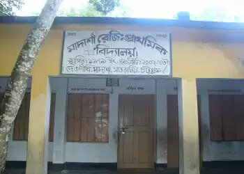 Sign board of Madarsha Government Primary School,Madarsha Union.